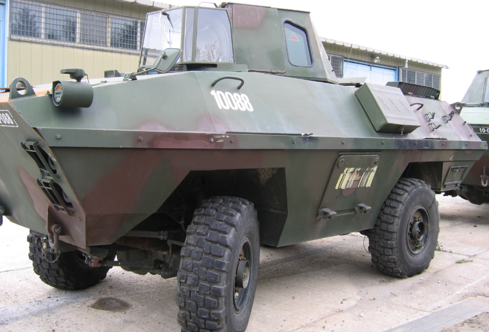 Unknown Slovene BOV variant